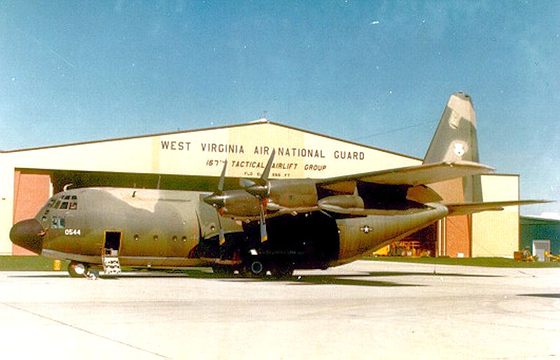 167th Tactical Airlift Squadron Lockheed C-130A-9-LM Hercules 56-544 WV ANG. Retired to AMARC Mar 27, 1990.